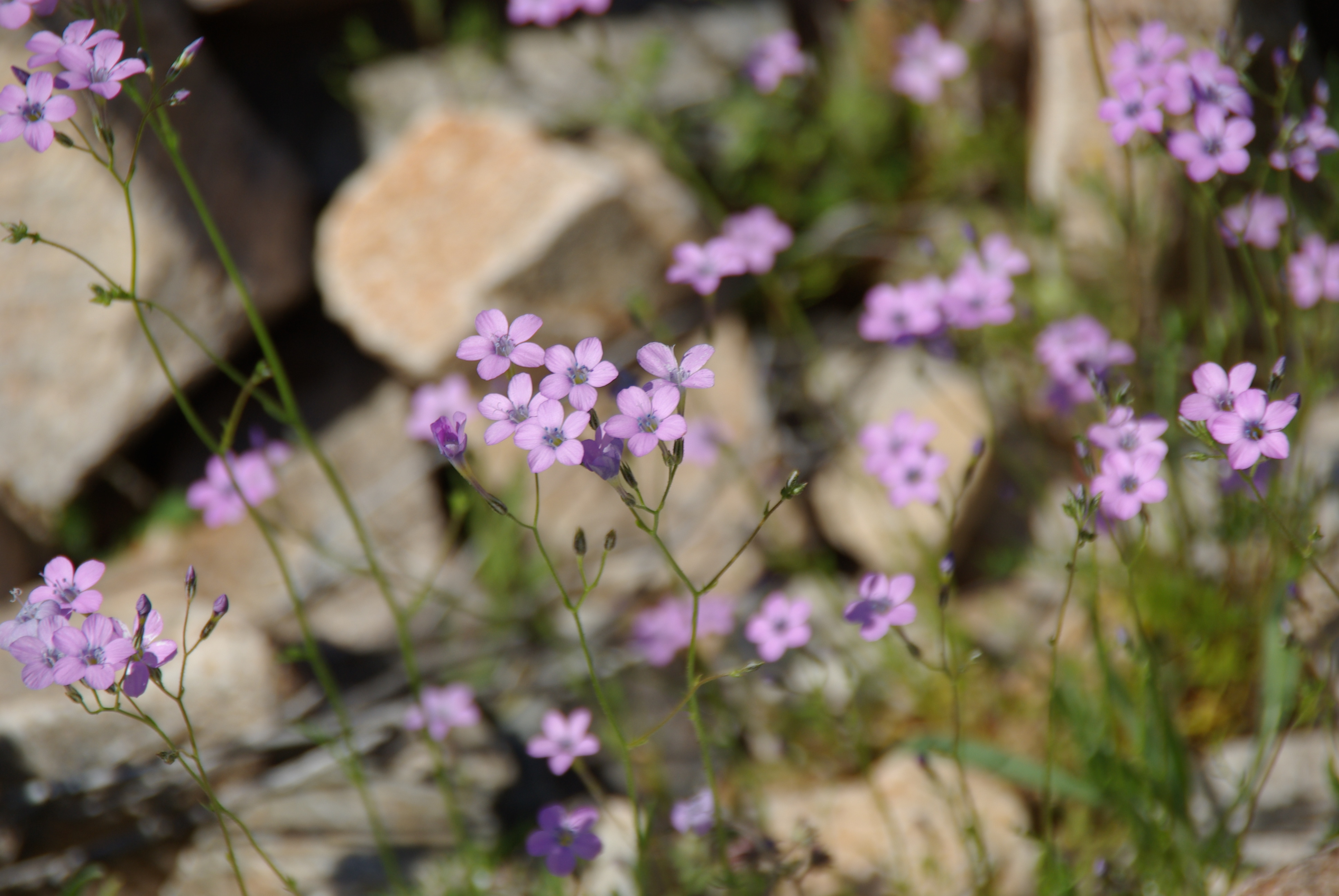 Gilia flavocincta - lesser yellowthroat Gilia. A close up of an individual bloom. "I saw this flower while hiking in the Phoenix Mountain Preserve, south of the 40th Street Trailhead." Credits